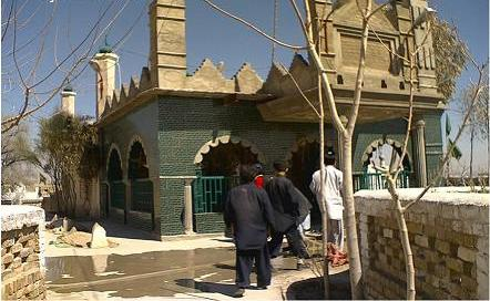 Sufi picture